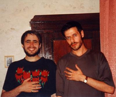 Pak No-ja (Russian and South Korean academic of Korean studies, communist and columnist) & Yuri Khanon (Russian writer, painter, canonic, composer, laureate of the European Film Awards) S-Petersbourg, iuli 2000